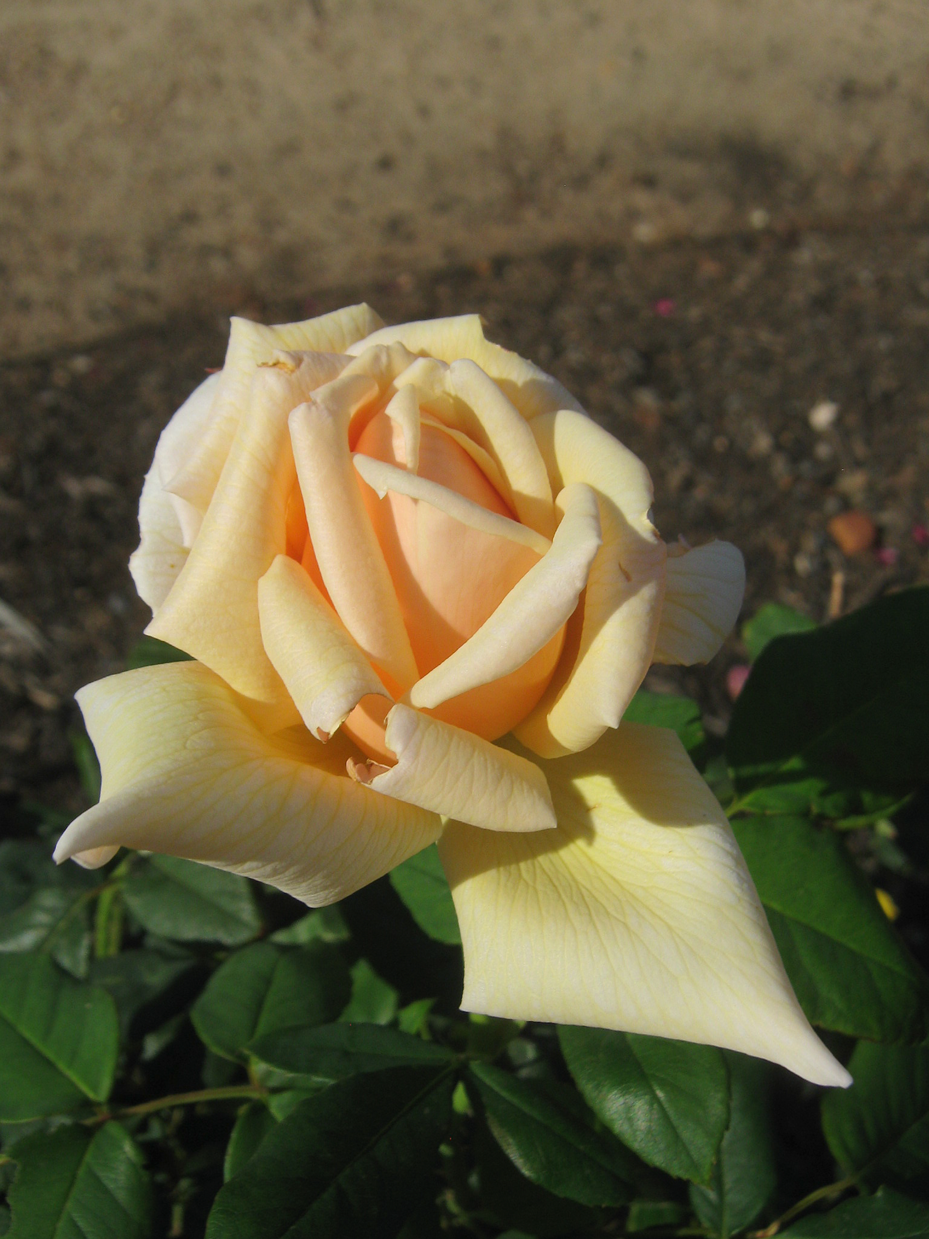 Rose Joanna Hill, Hill 1928 semi-double hybrid tea